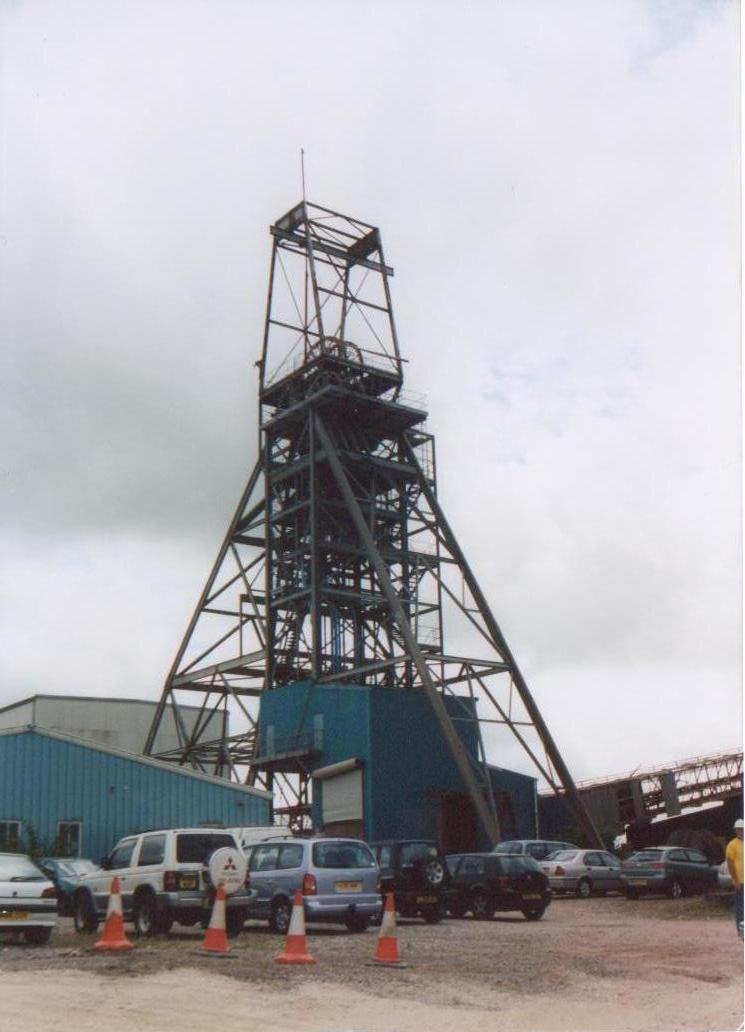 Picture of South Crofty New Cooks Kitcher Shaft Headgear